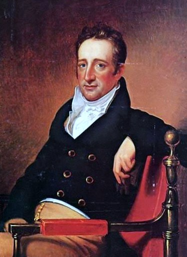 Isaac McKim, US Representative from Maryland